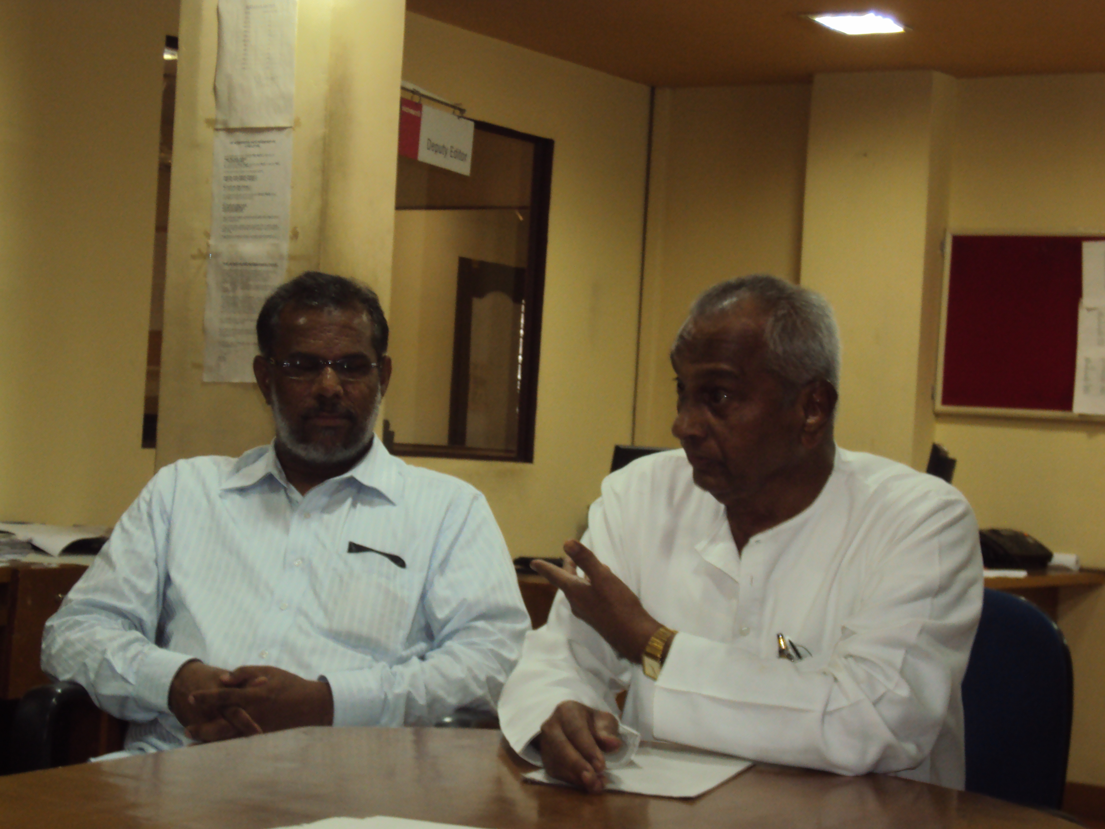 V. T. Rajshekar- Dalit Writer